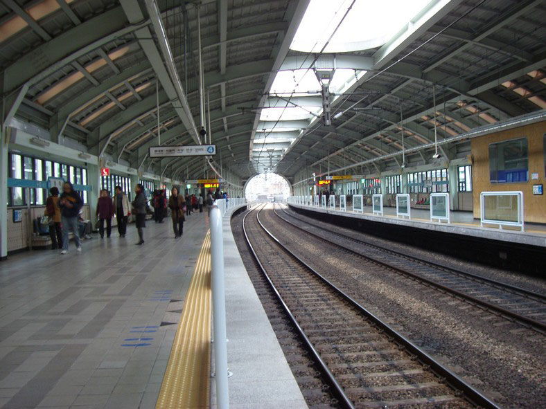 Sanggye Station platform